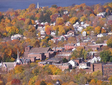 Taken By Bfdexp from Mount Beacon. Used for the website Bfdexp's administer, This is from Beacon, New York.